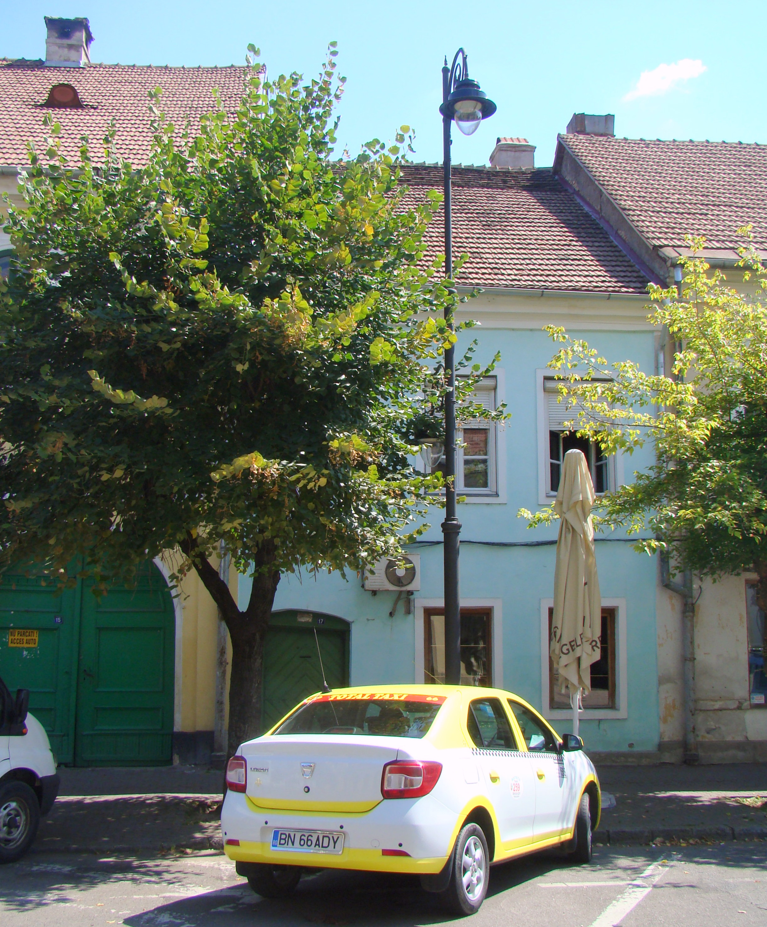 House, historic monument, in Bistrița, Gheorghe Șincai street 17